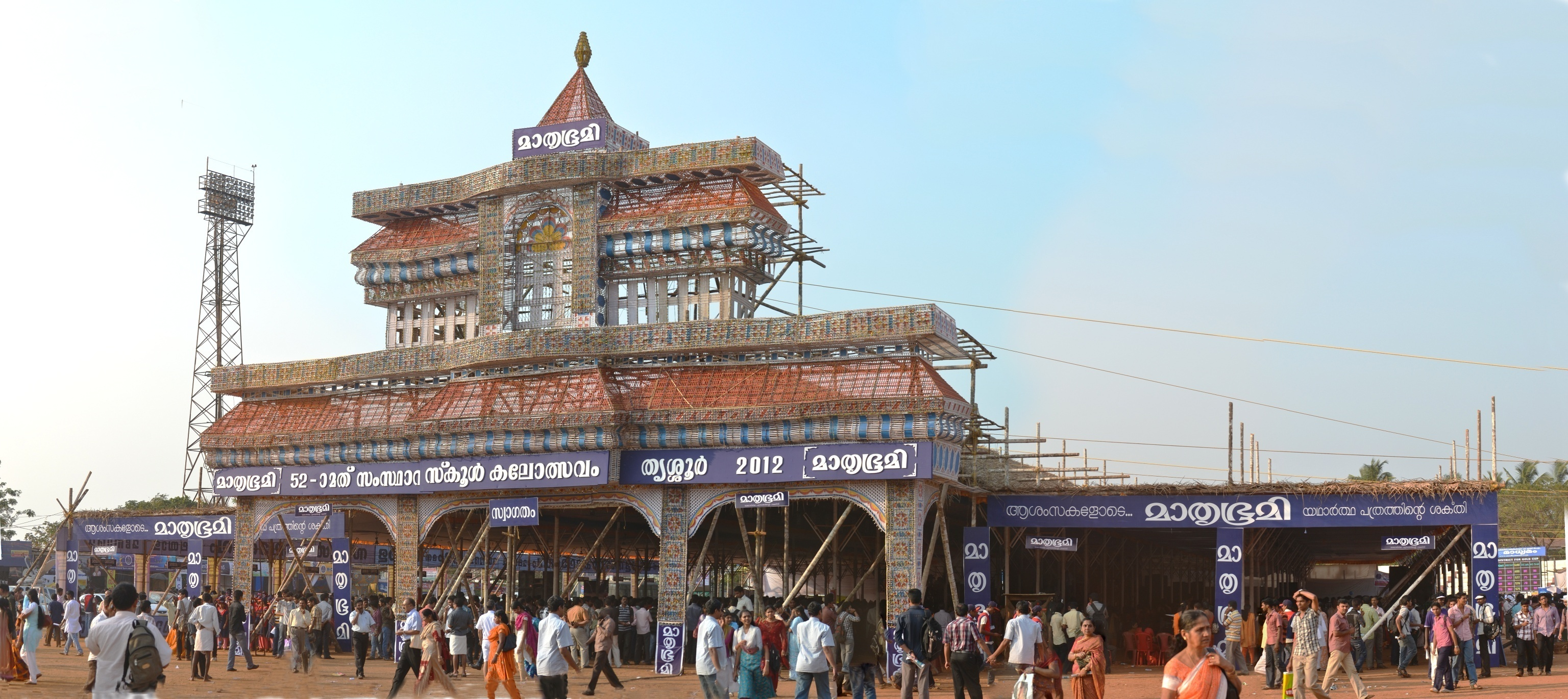 Youth festival decorated entrance.